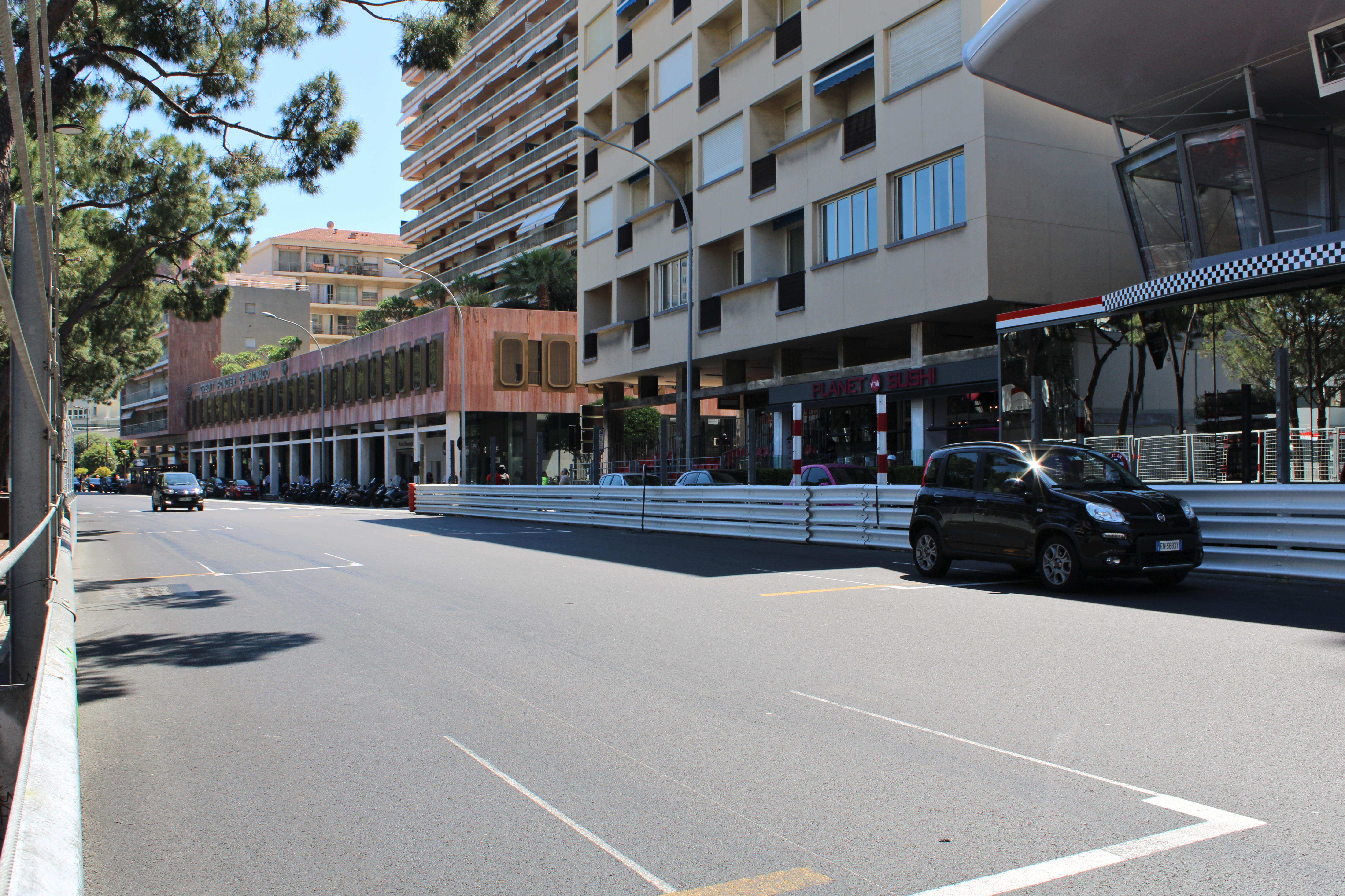 Start-finish lines Circuit de Monaco